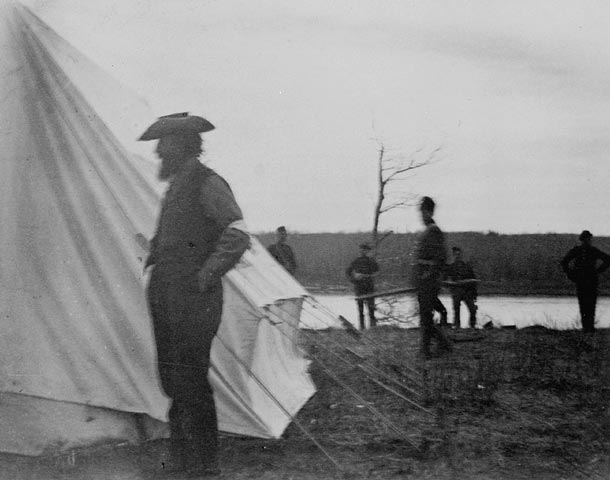 Louis Riel, a prisoner, in the camp of Major-General F.D. Middleton at Batoche, May 16, 1885